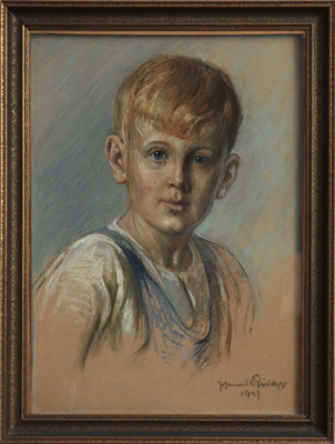 Joachim Rudolphi, grandson of Johannes Rudolphi